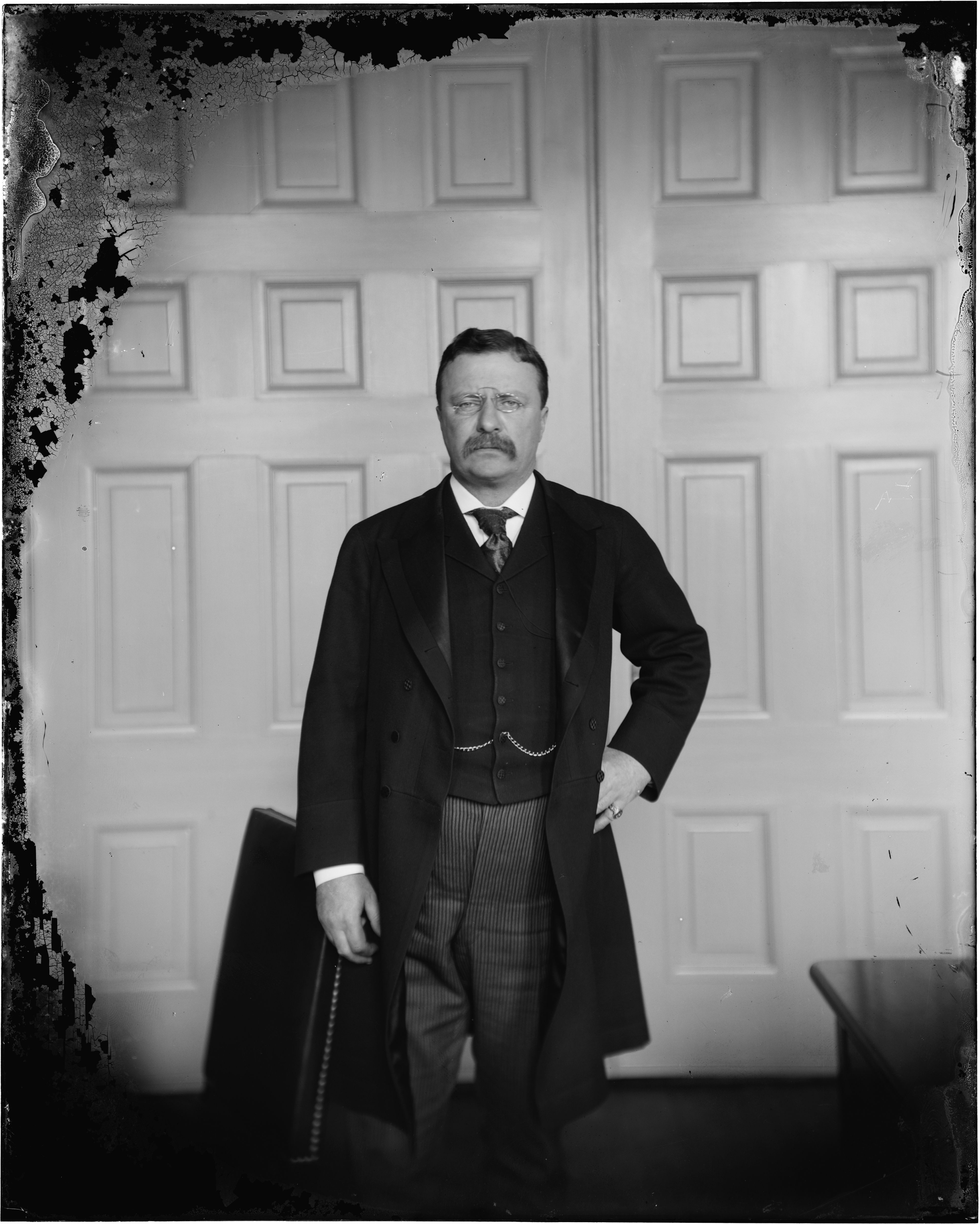 Pres. Theo. Roosevelt